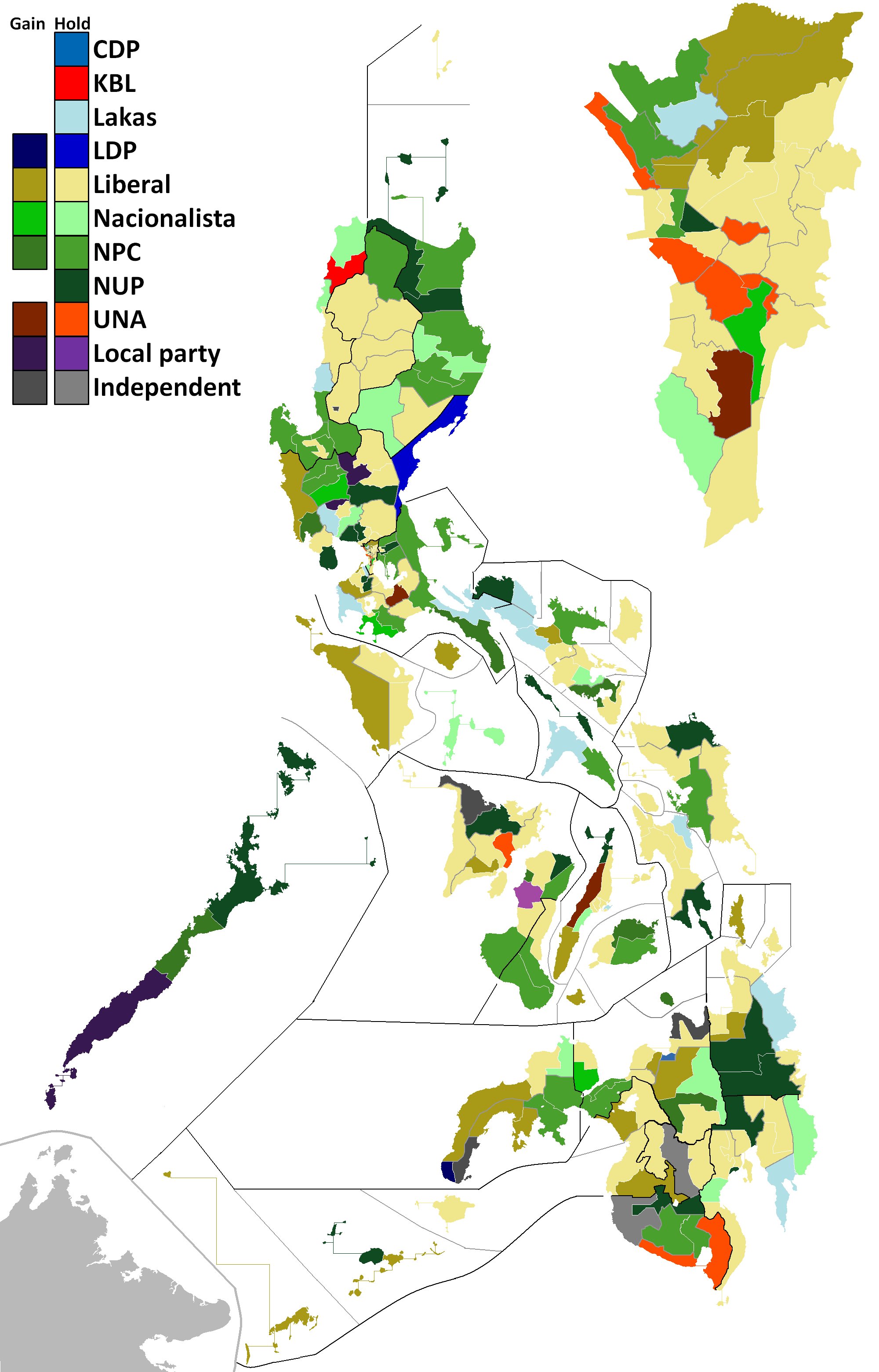 Results of the Philippine House of Representatives elections per district showing gains and losses.